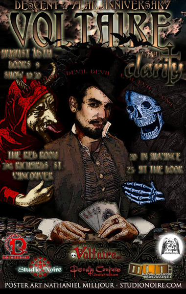 Voltaire at Descent's Red Room 2009